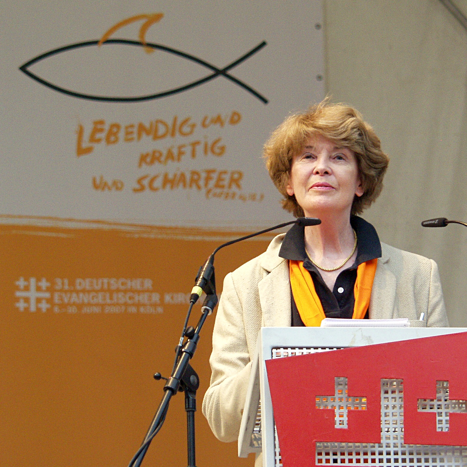 Susan George, Attac France, on the "Deutscher Evangelischer Kirchentag 2007"